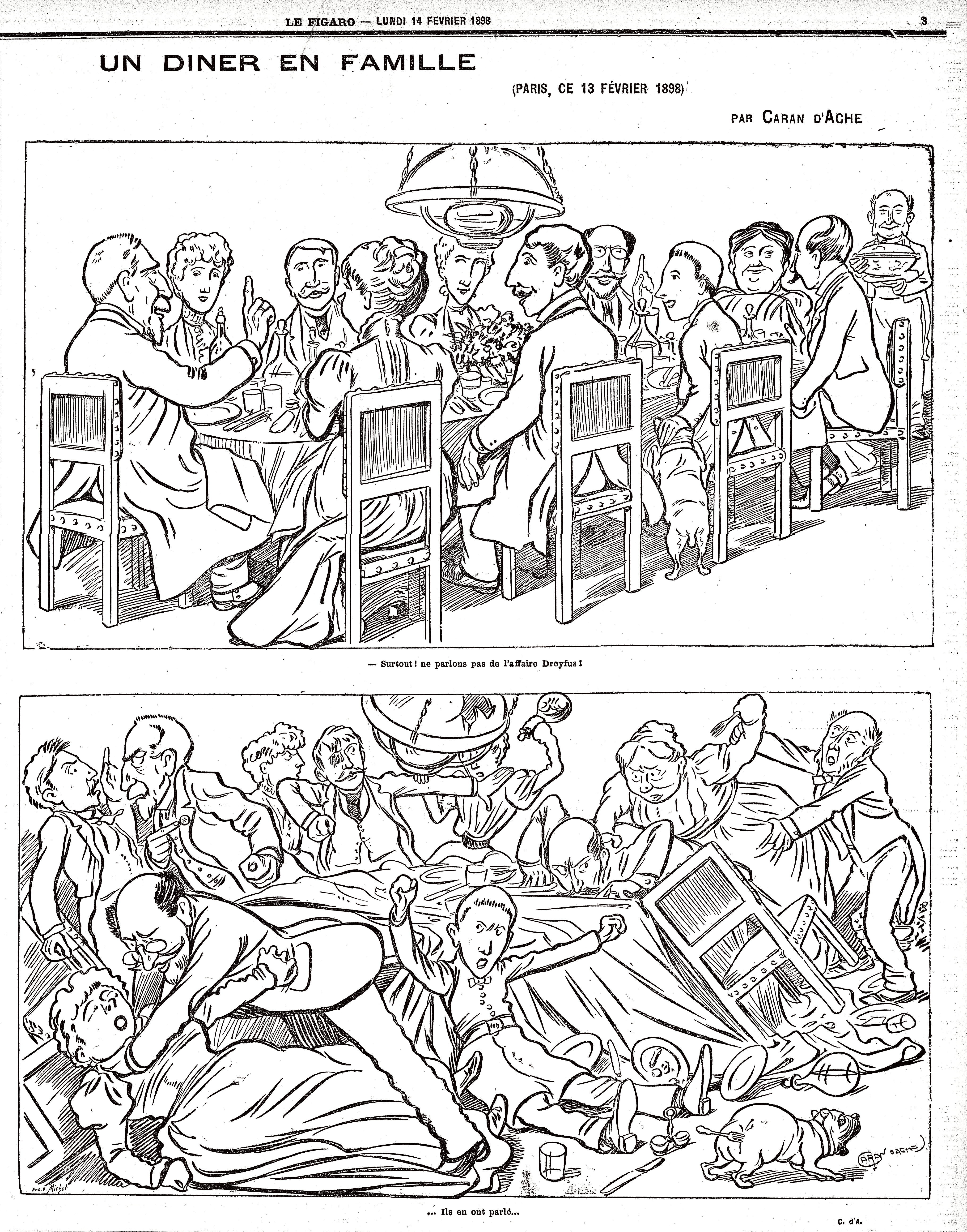 Drawing of "a family supper" by Caran d'Ache in le Figaro on February 14, 1898. The drawing depicts the divisions in French society during the Dreyfus Affair. At the top, somebody says "Above all, let us not discuss the Dreyfus Affair!". At the bottom, the whole family is fighting, and the caption says "They have discussed it".